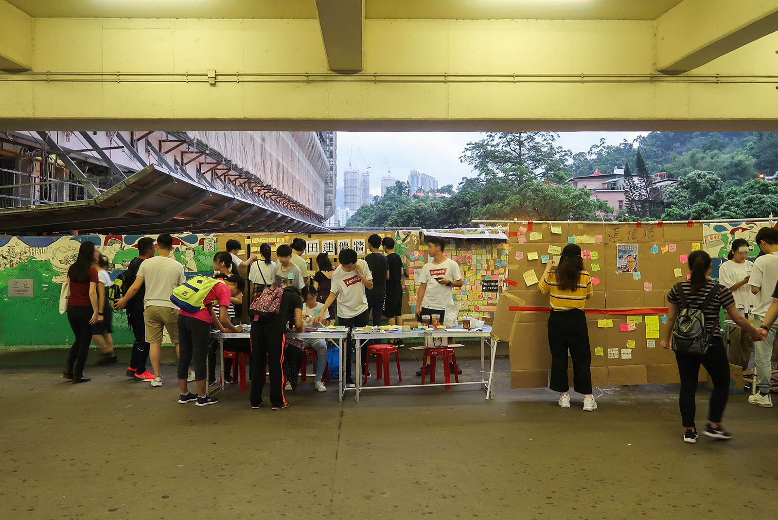 Shatin Station Bus Terminal Lennon Wall